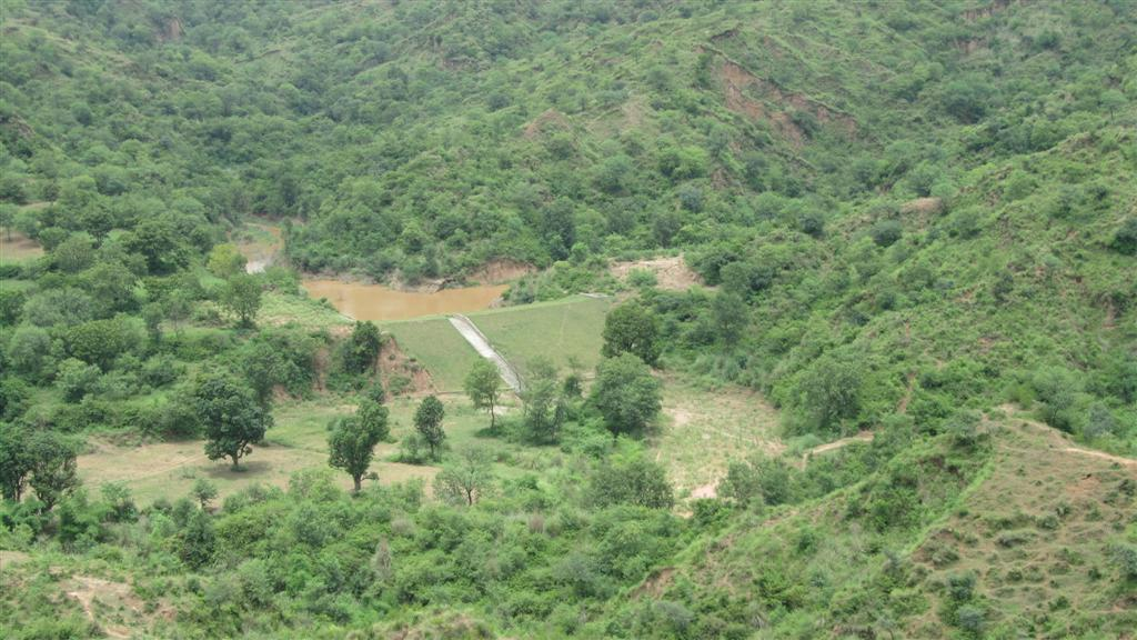 Jayanti dam